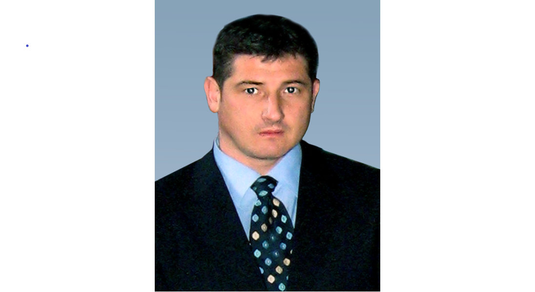 Photo of Petar Veselinović Српски (ћирилица): Фотографија Петра Веселиновића